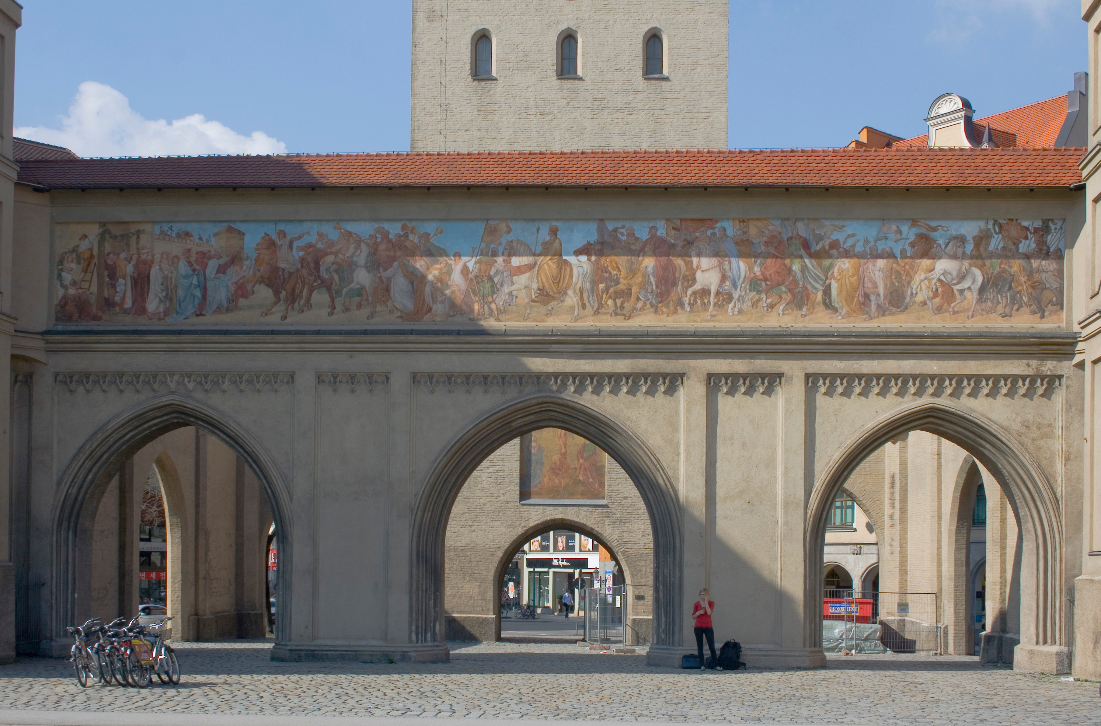 Isartor, Munich, Germany